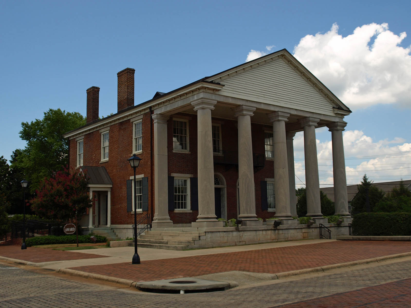 The Old State Bank Building in Decatur, Alabama, listed on the National Register of Historic Places.